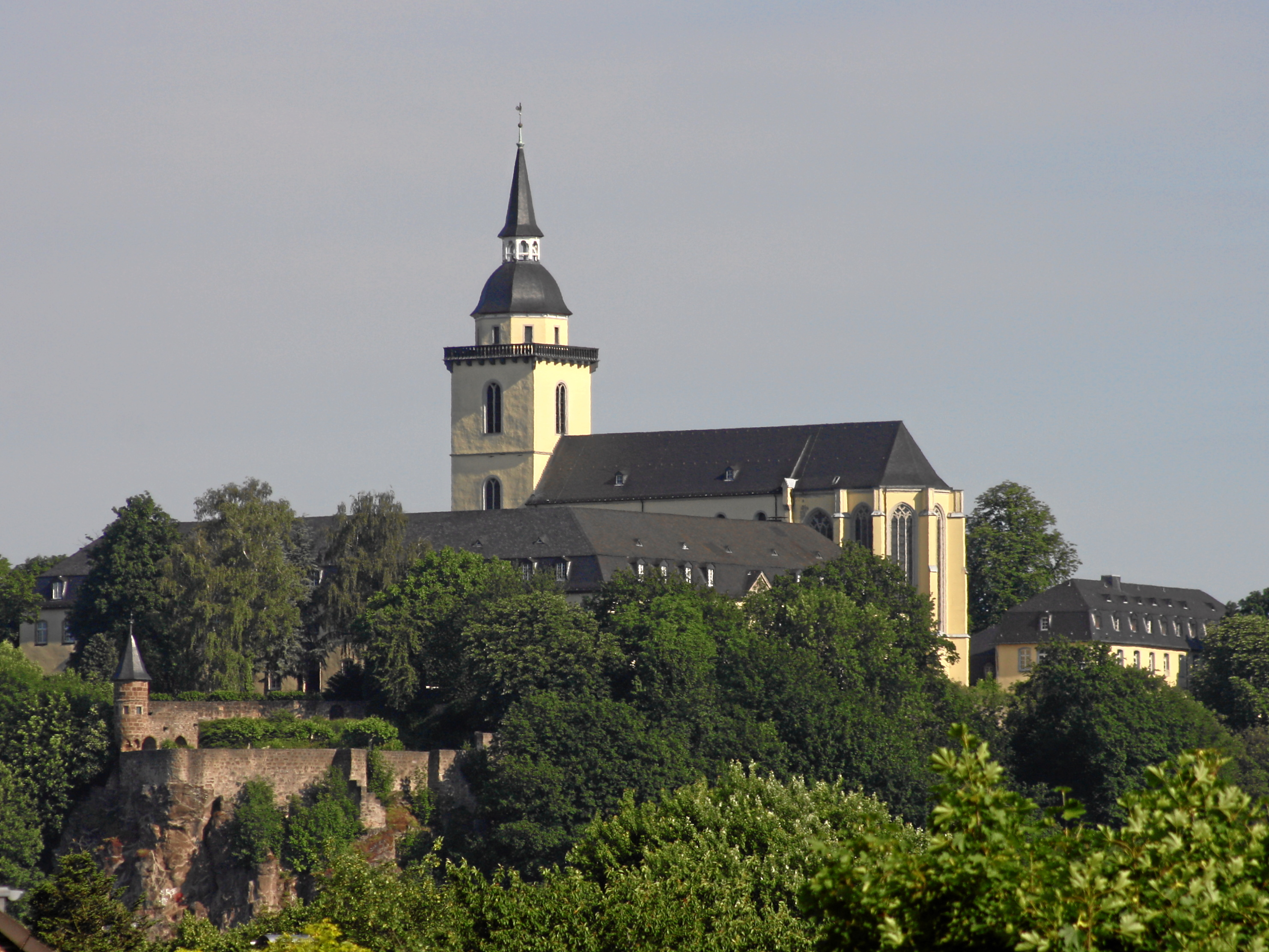 Siegburg, Germany. Michaelsberg abby, exterior view from South-East.